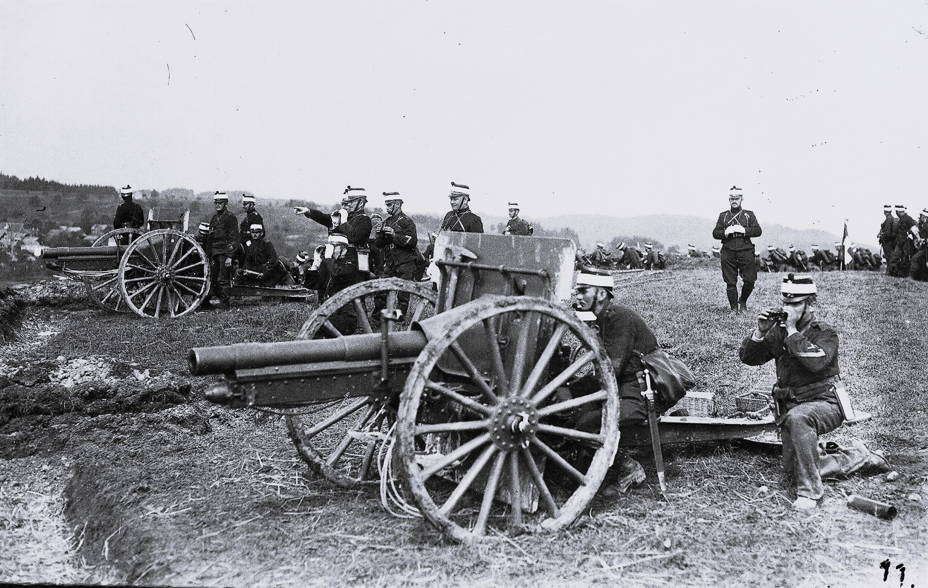 Kaisermanöver Toggenburg, Schweiz: Artillerie im Manövergelände Kirchberg, 4. September 1912